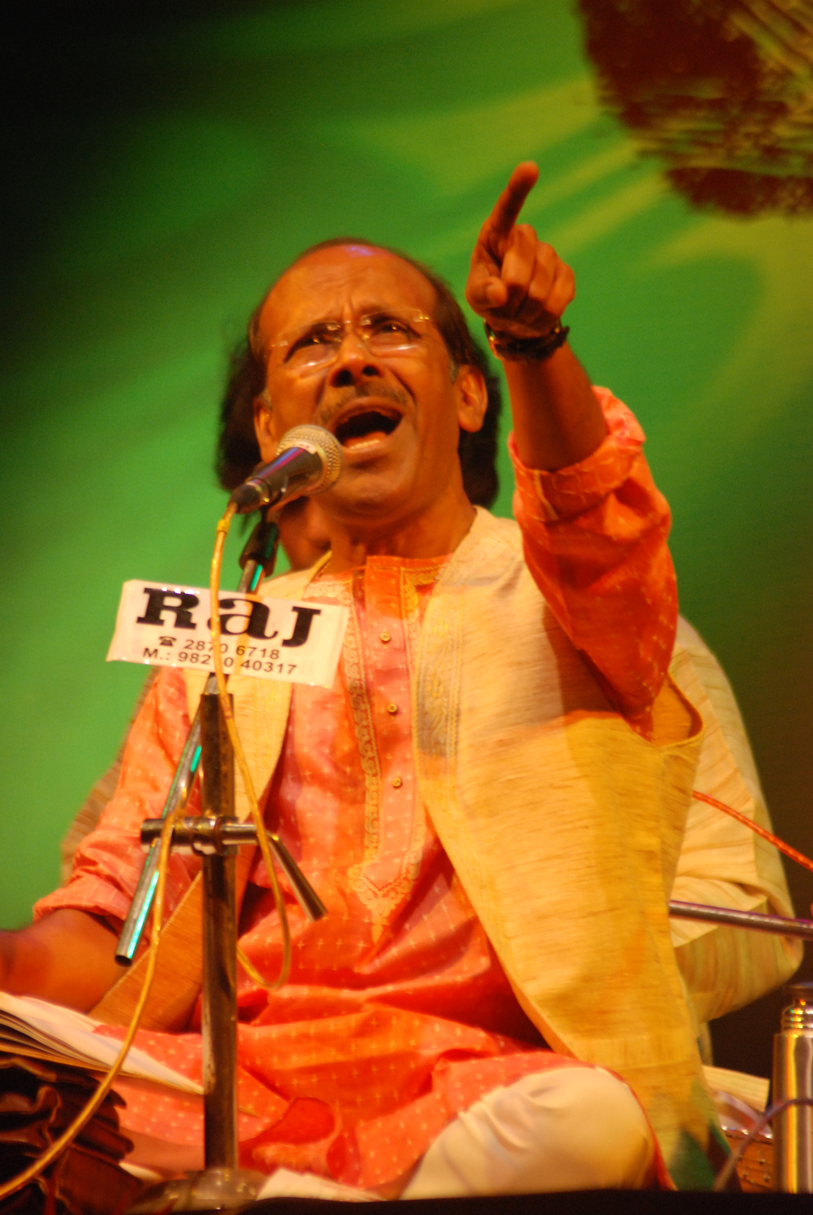 Bhimrao Panchale performing in Ghazal concert at Mumbai.